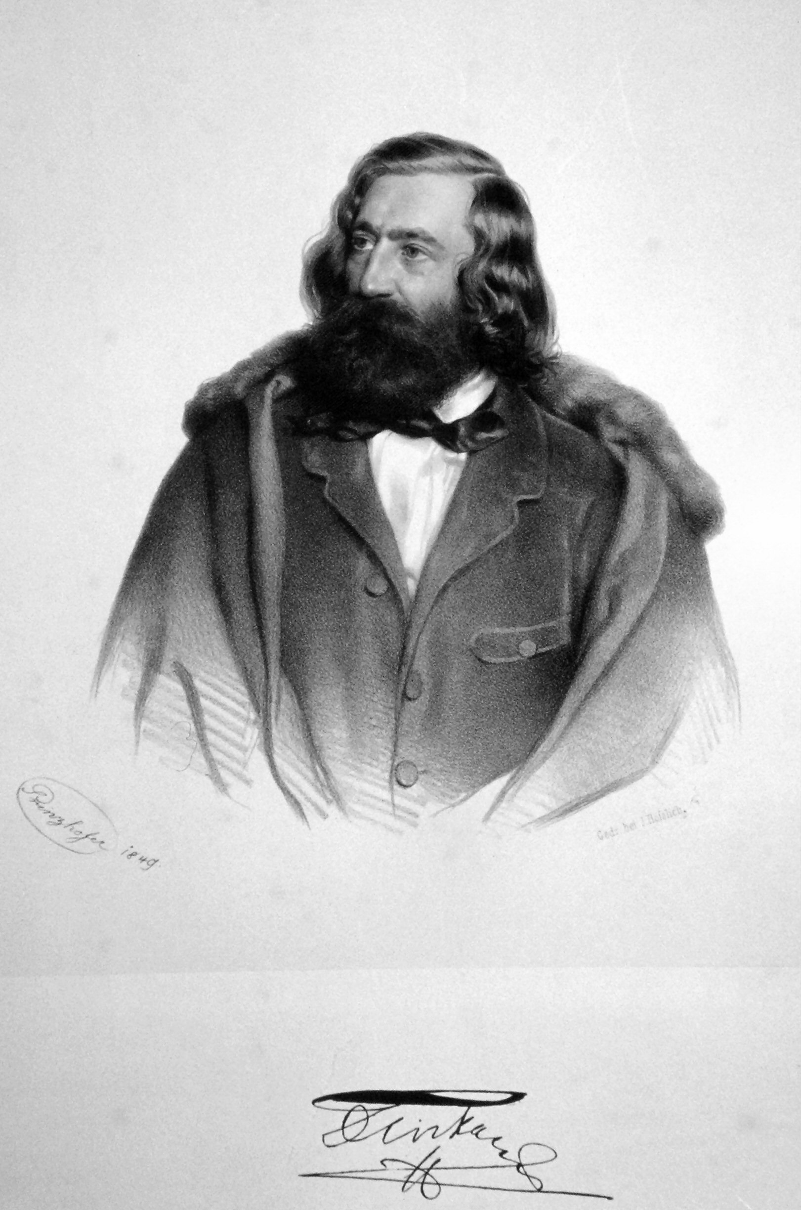 Mikhail Ivanovich Glinka (1804–1857), Russian composer. Lithography by August Prinzhofer. Printed by Johann Höfelich & Comp., Vienna